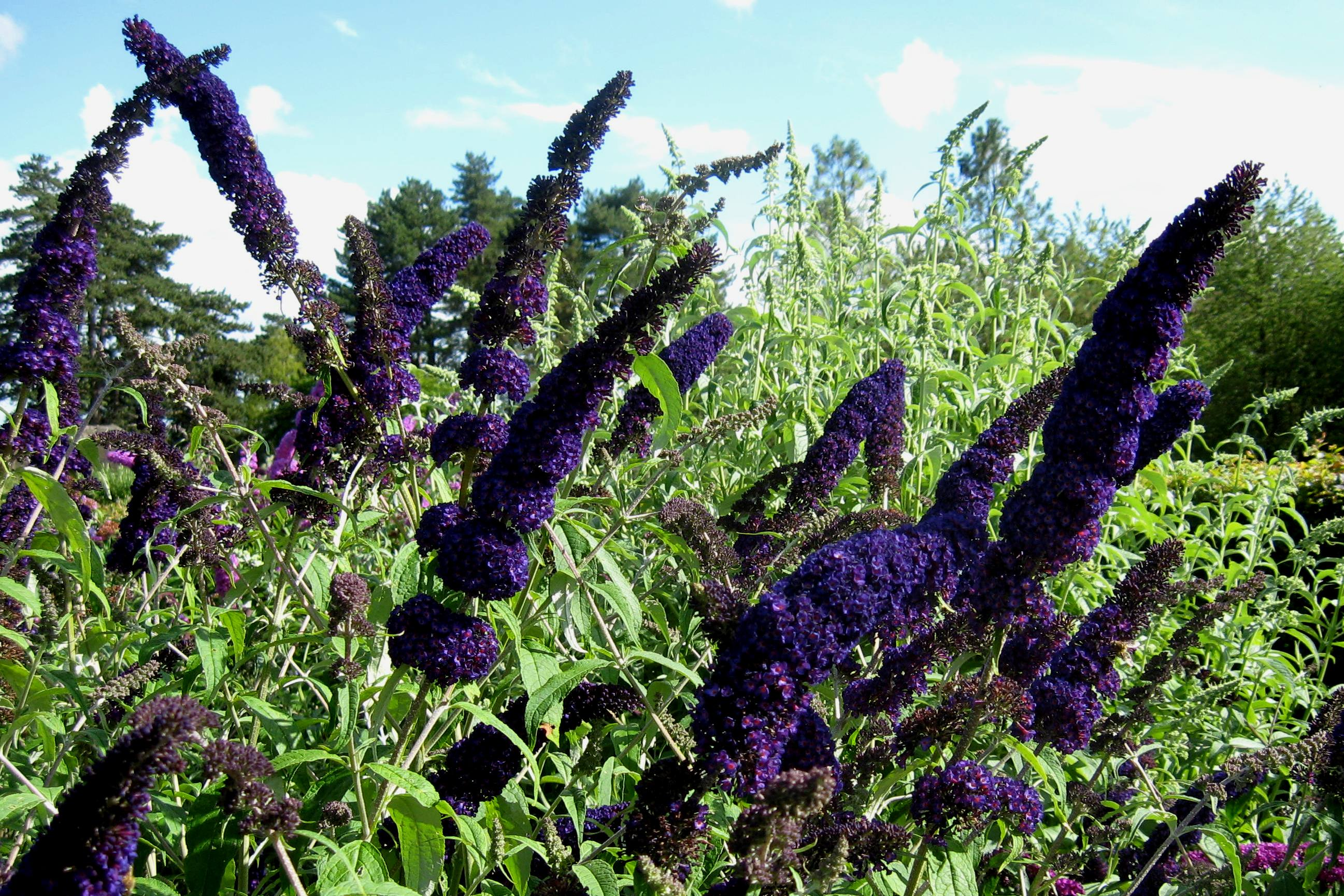 Photo of Buddleja cultivar 'Black Knight' taken at Longstock Park, August 2012